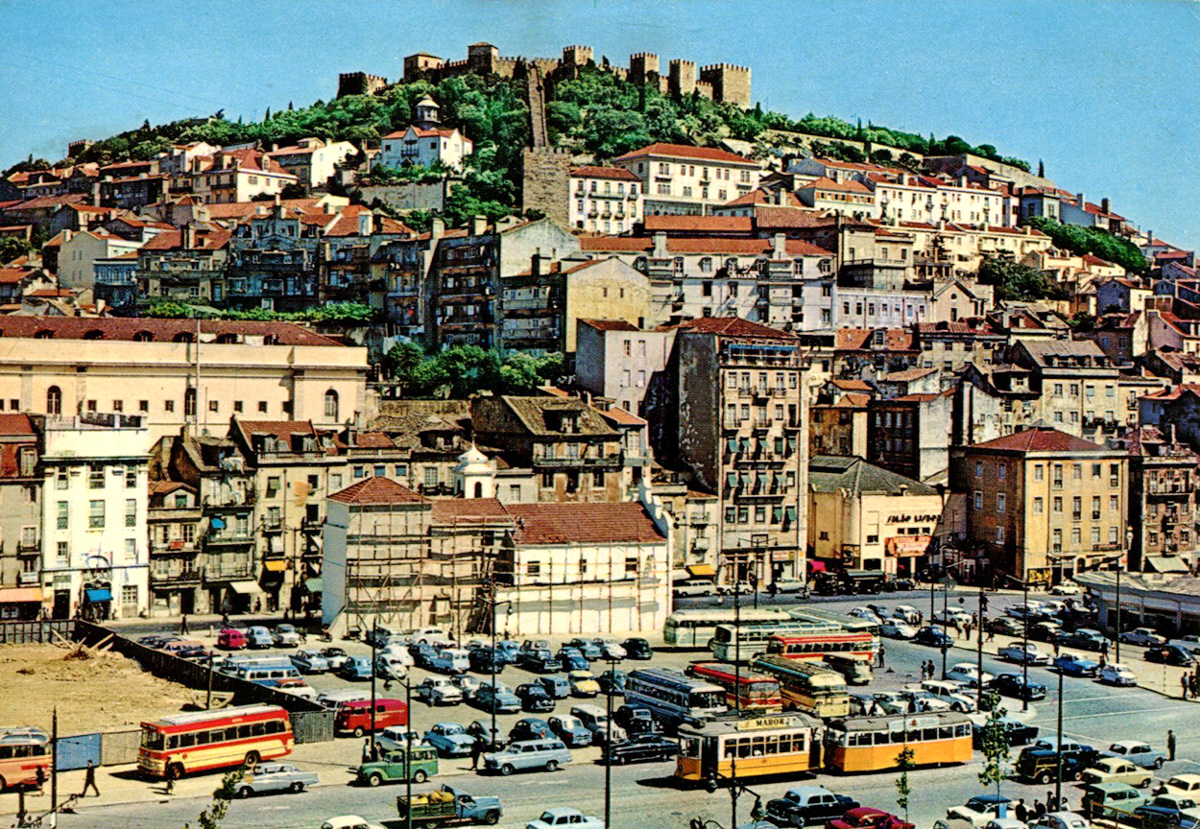 Castelo do São Jorge (St. George Castle), with the old quarter of Lisbon on the right. There is an old streetcar (tram) in the foreground, along with some modern (for the time) buses. The Alfama district beyond the photo to the right.